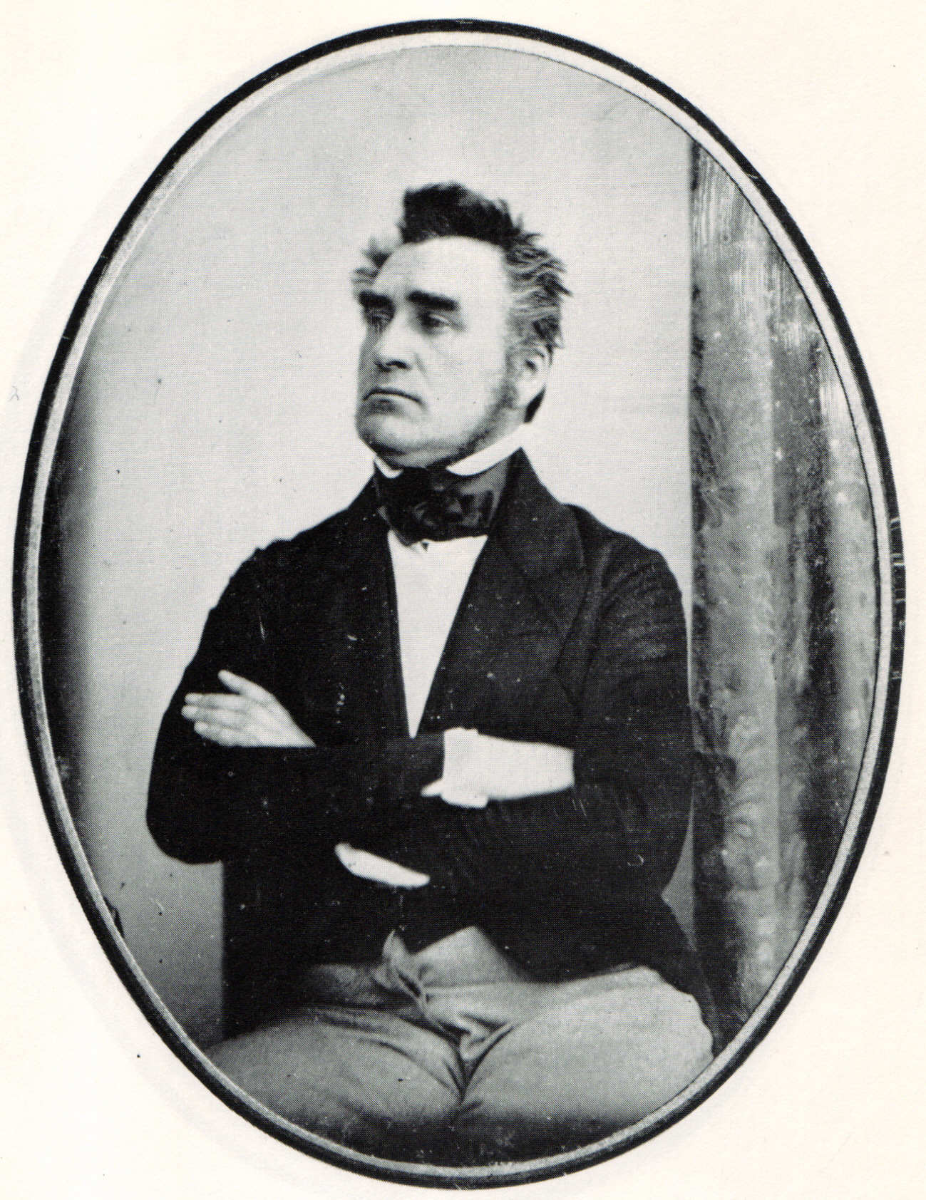 Heinrich von Gagern (1799-1880), German statesman, as a member of the German National Assembly in 1848